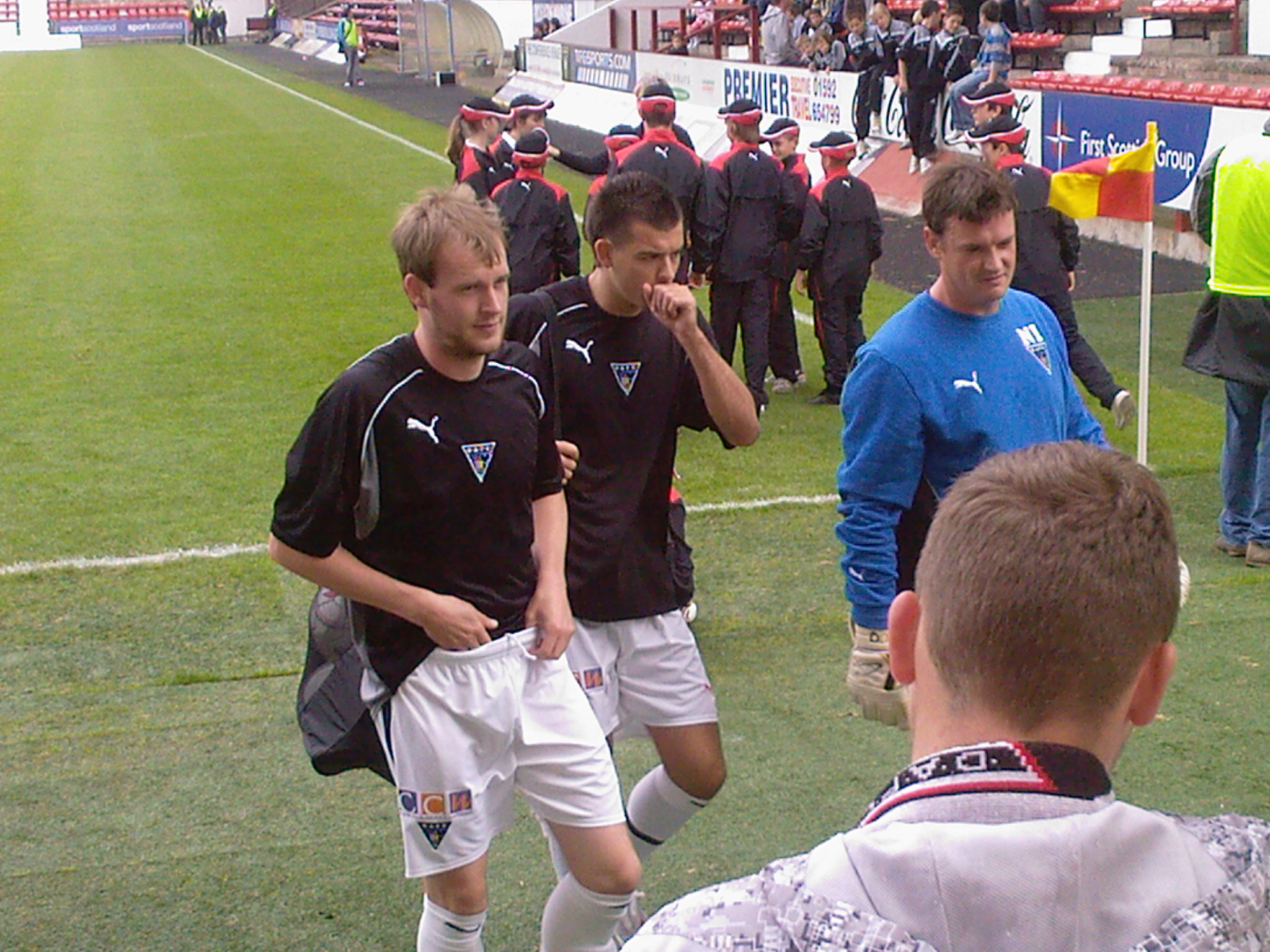 Steven Bell and Scott Muirhead players for Dunfermline